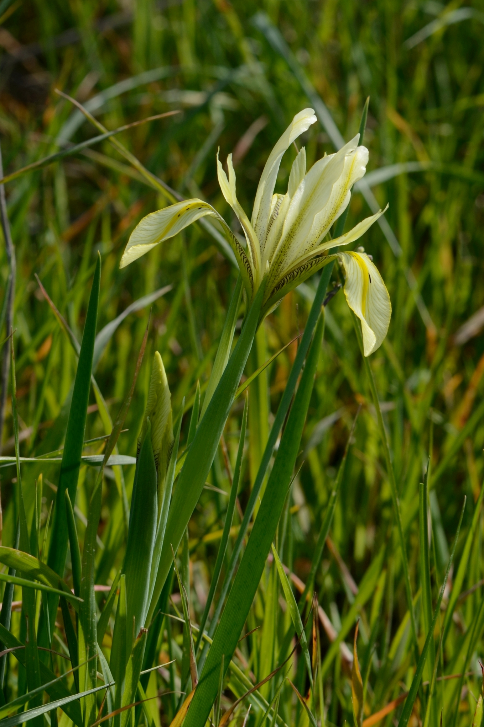 Iris grant-duffii Baker, Golan Heights, Israel/Syria, February 23, 2012.